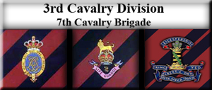 7th Cavalry Brigade, WW1